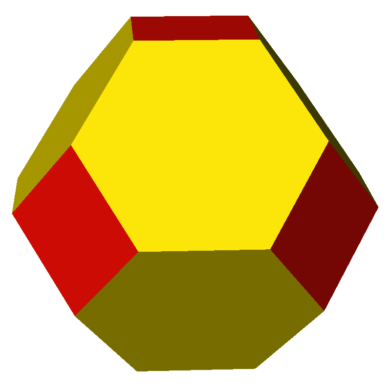 Truncated octahedron